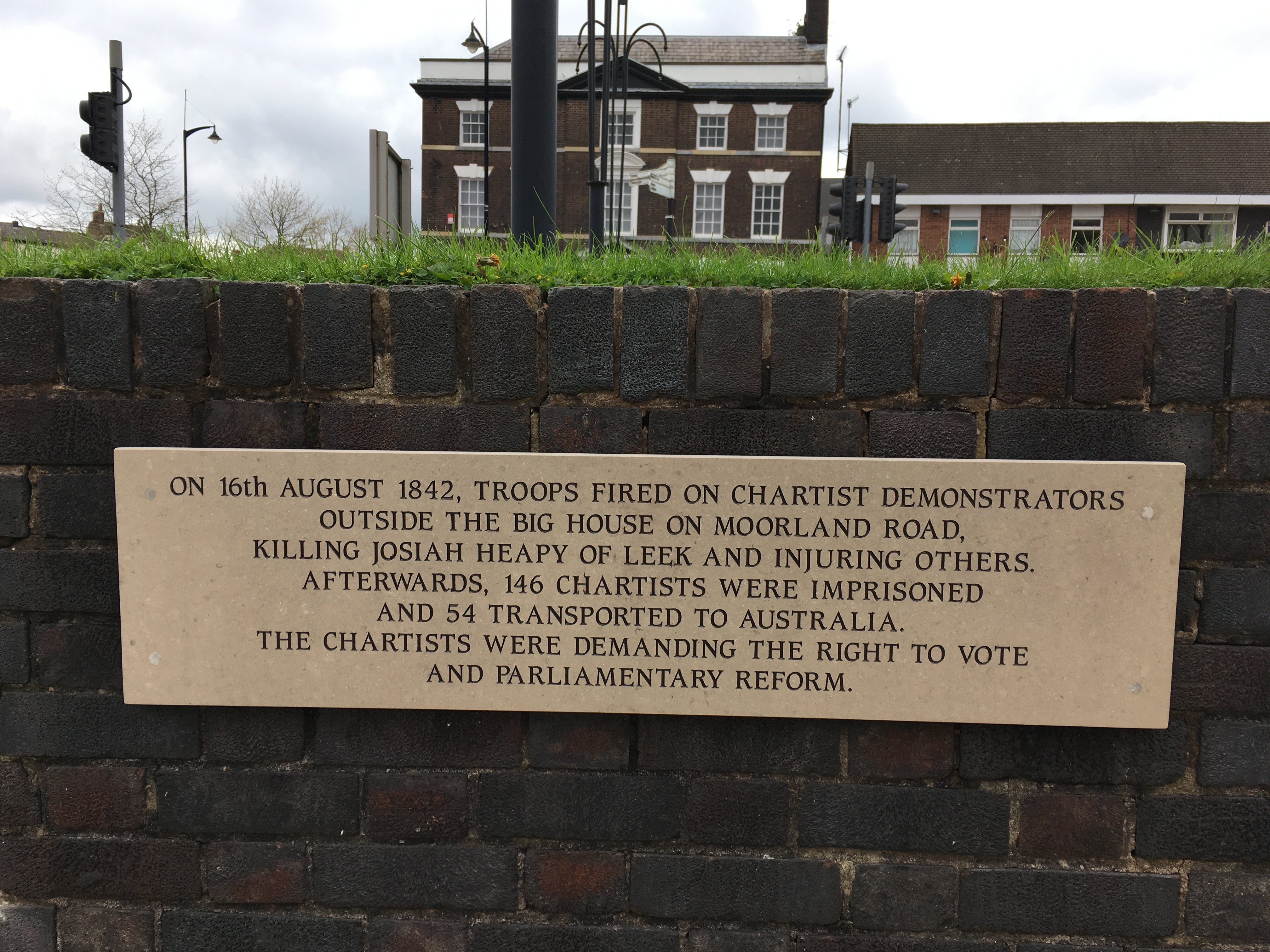 This plaque was provided by the City of Stoke-on Trent. Its installation was as a result of lobbying by Jason Hill and other members of the North Staffordshire Trades Union Council.